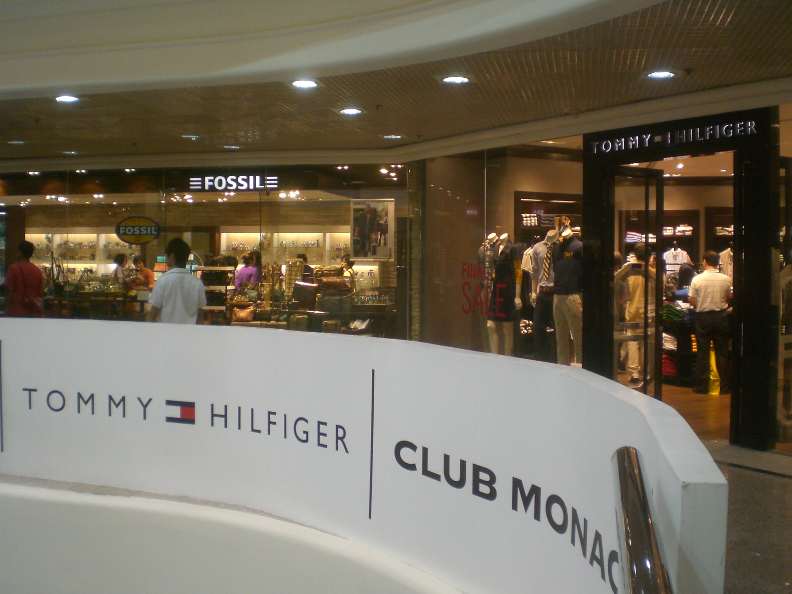 香港時代廣場